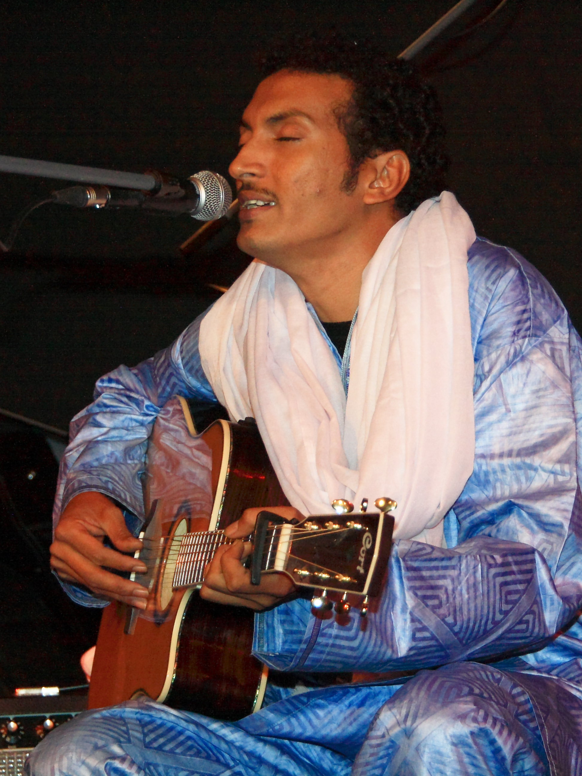 Bombino at Kult, Niederstten.